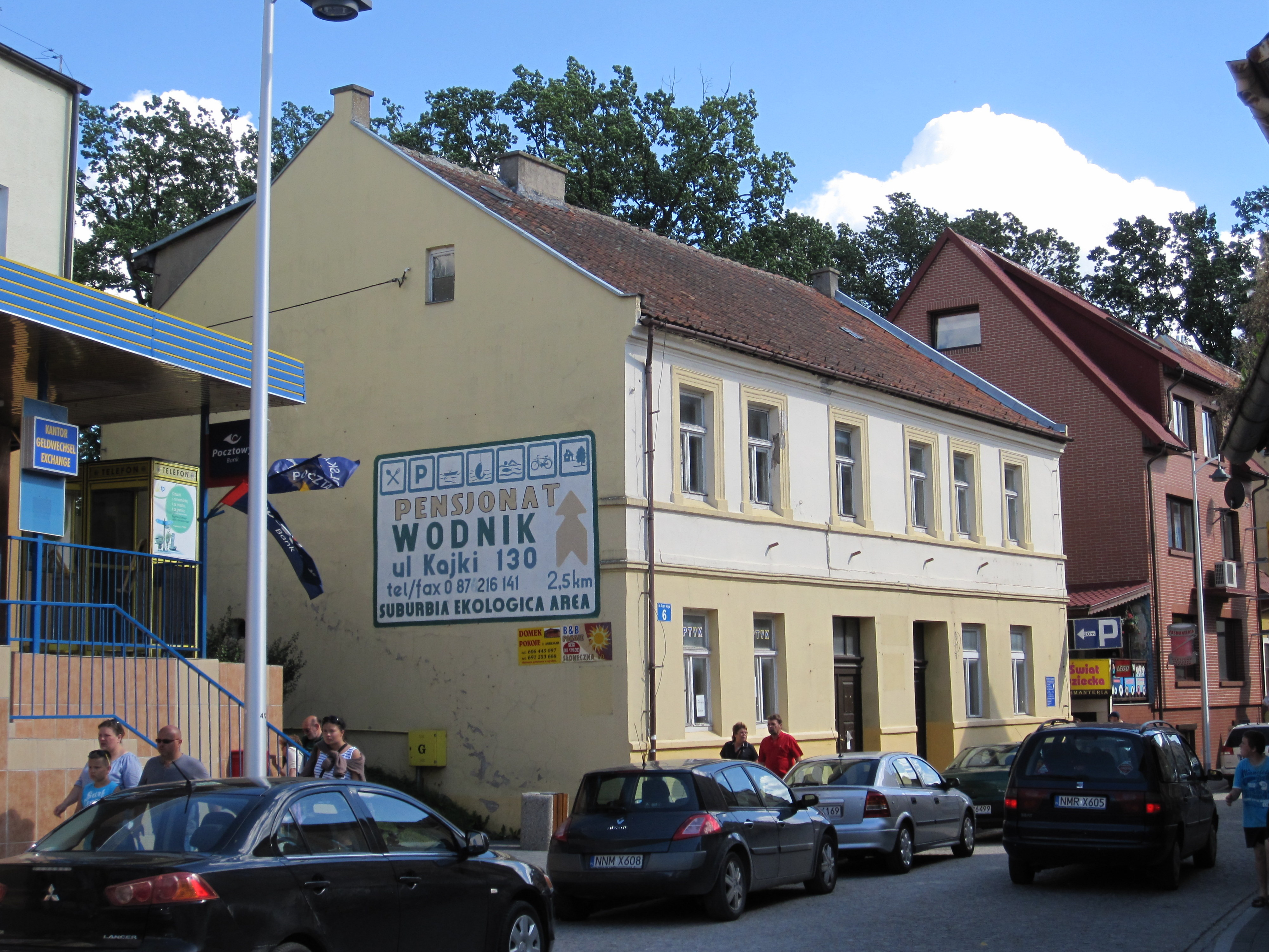 Building No. 6 on the May 3 Street in Mikołajki